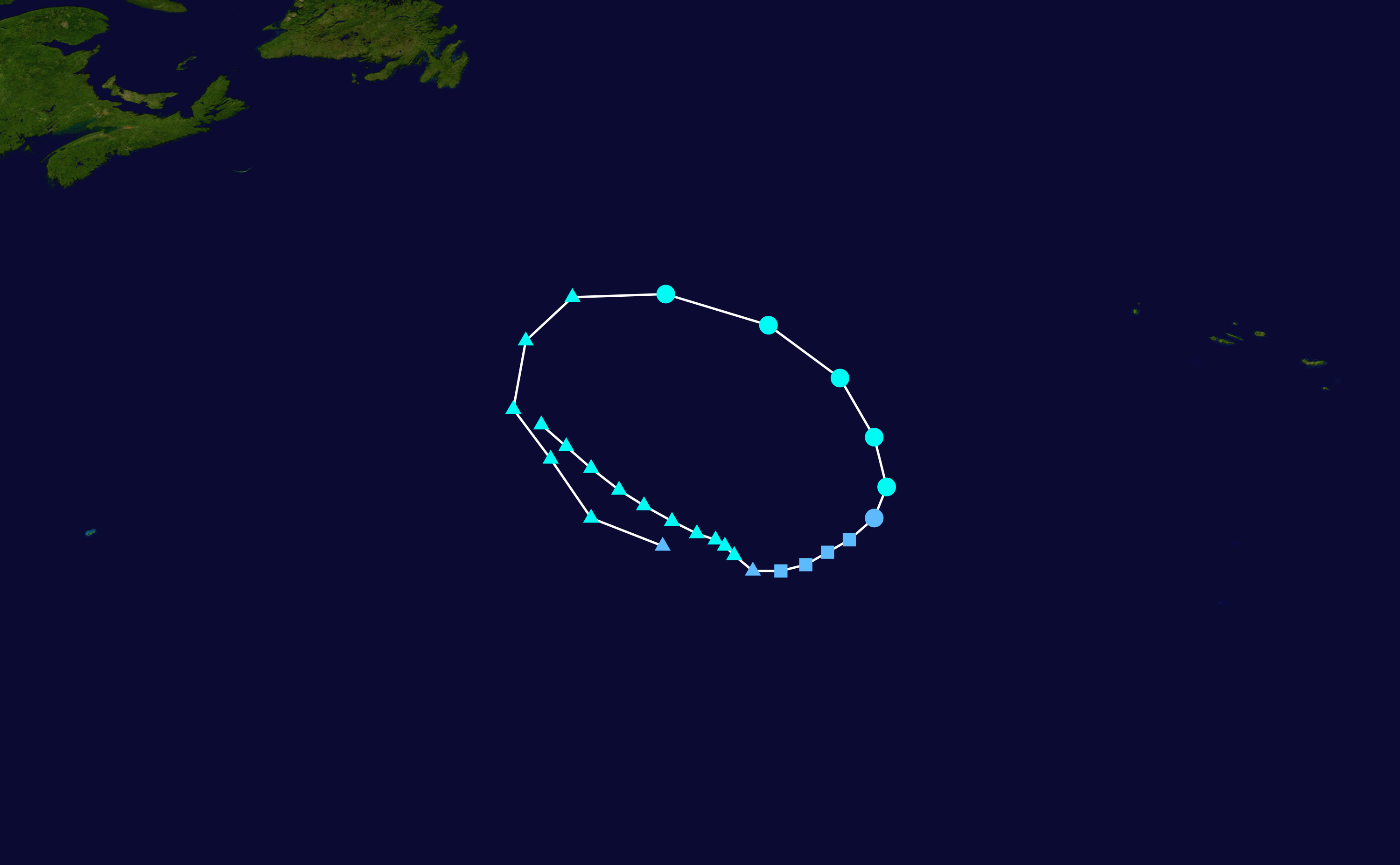 Track map of Tropical Storm Arlene of the 2017 Atlantic hurricane season. The points show the location of the storm at 6-hour intervals. The colour represents the storm's maximum sustained wind speeds as classified in the Saffir–Simpson scale (see below), and the shape of the data points represent the nature of the storm, according to the legend below. Saffir–Simpson scale Tropical depression≤38 mph≤62 km/h Category 3111–129 mph178–208 km/h Tropical storm39–73 mph63–118 km/h Category 4130–156 mph209–251 km/h Category 174–95 mph119–153 km/h Category 5≥157 mph≥252 km/h Category 296–110 mph154–177 km/h Unknown Storm type Tropical cyclone Subtropical cyclone Extratropical cyclone / Remnant low / Tropical disturbance / Monsoon depression